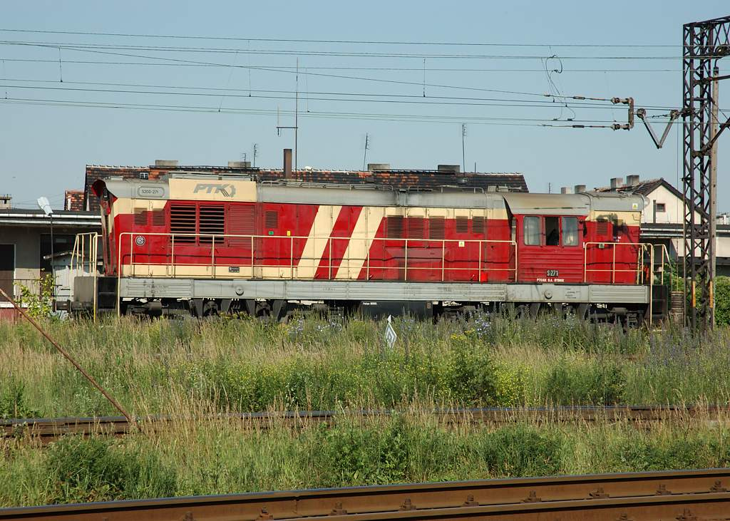 Diesel locomotive S-271 of the Polish operator PTKiGK Rybnik, station Chałupki, Poland.